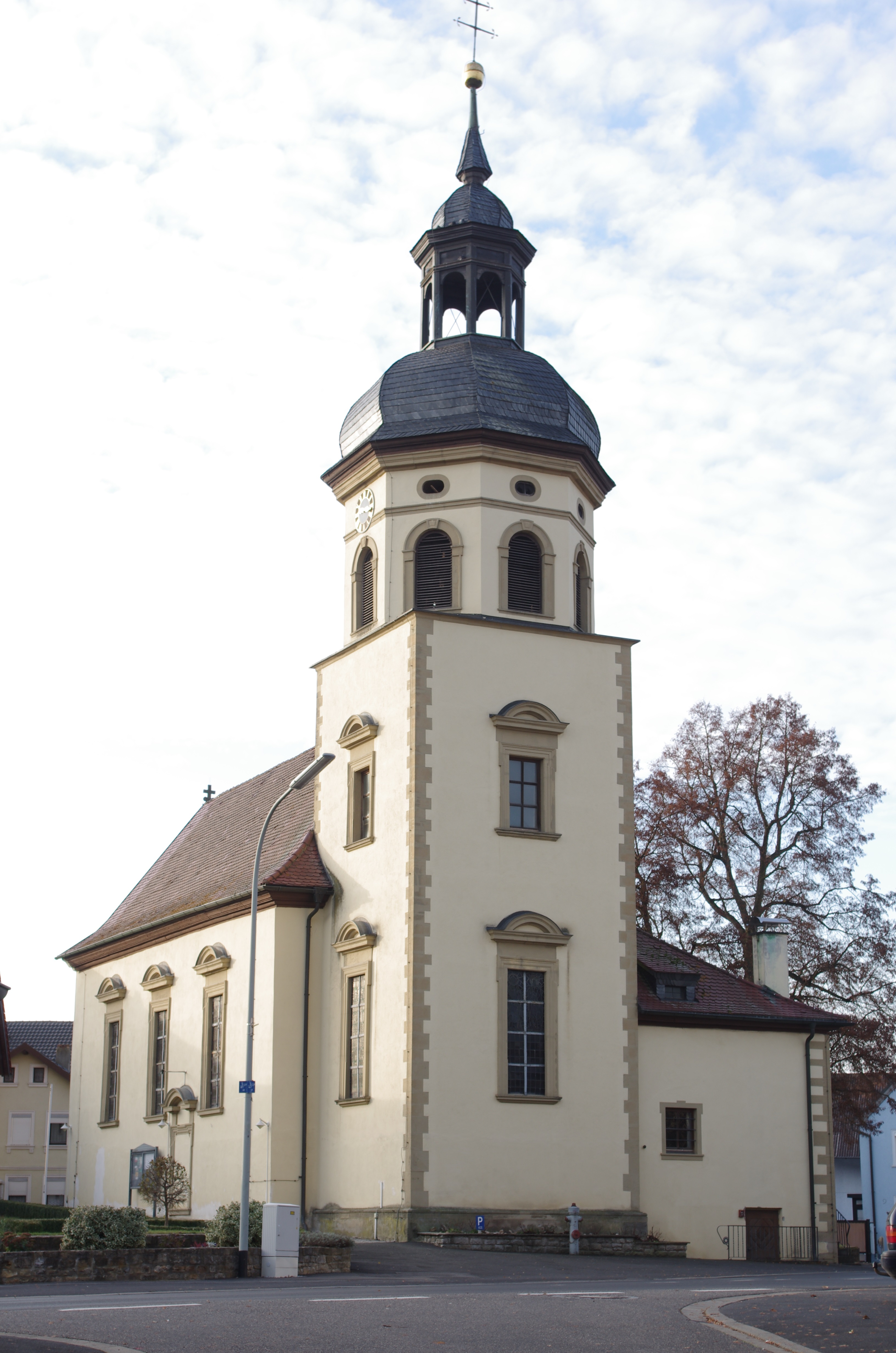 Object location49° 58′ 52.5″ N, 10° 21′ 50.33″ E